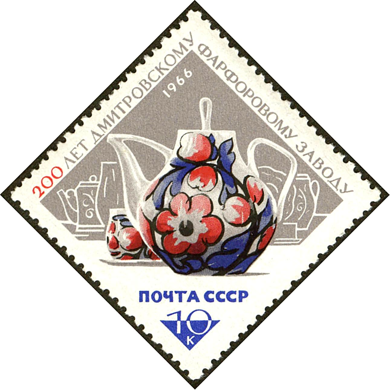 200th anniversary of the Dmitrov Porcelain Factory[1]. The teapot and the cup made at the Dmitrov Pocelain Factory. 1960s. The stamp of the Soviet Union, 10 kopecks, 28 January 1966, CPA Catalogue No 3305, Michel No 3174, Scott No 3153, Yvert No 3061. Coated paper. Offset printing. Perforation: comb 11½. Size of the stamp: 37×37 mm. Print run: 4,000,000.